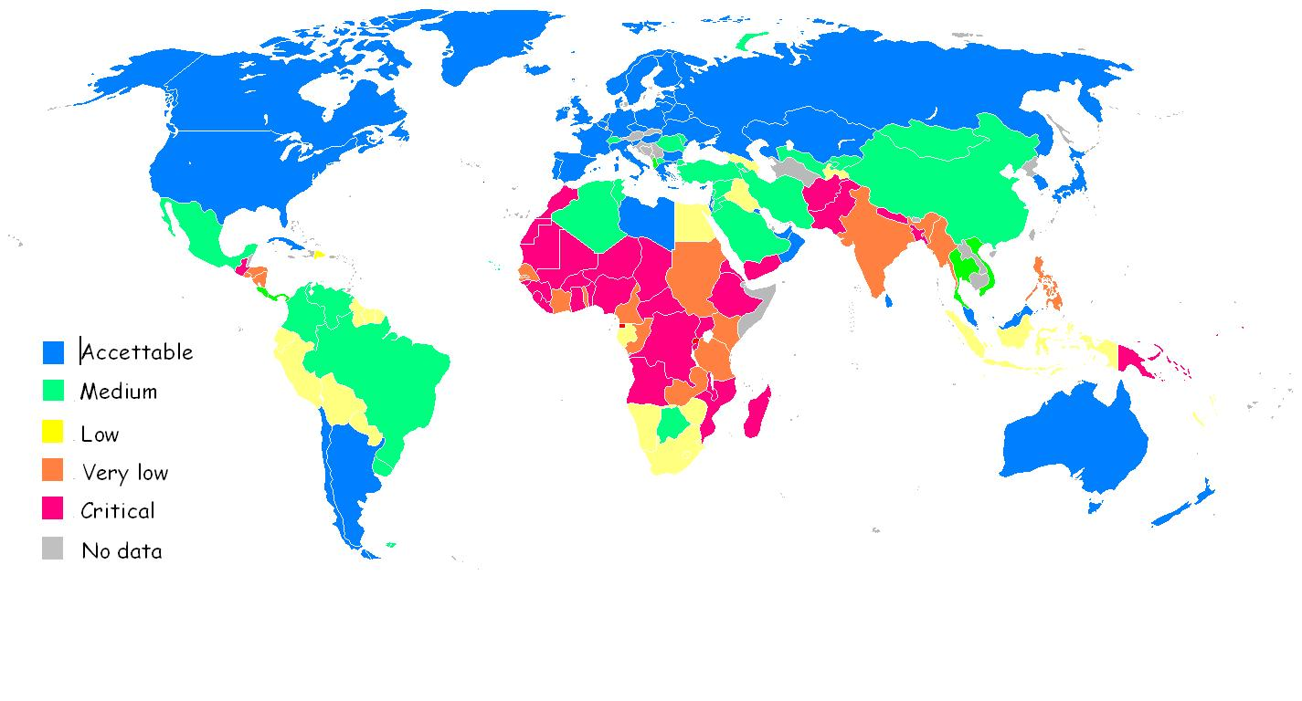 Basic capabilities index. Data are based on Social Watch report 2008. Data are updated, in practice, to 2005.